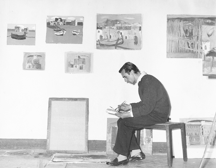 David McClure painting in his studio, Casteldaccia, Italy, 1956.